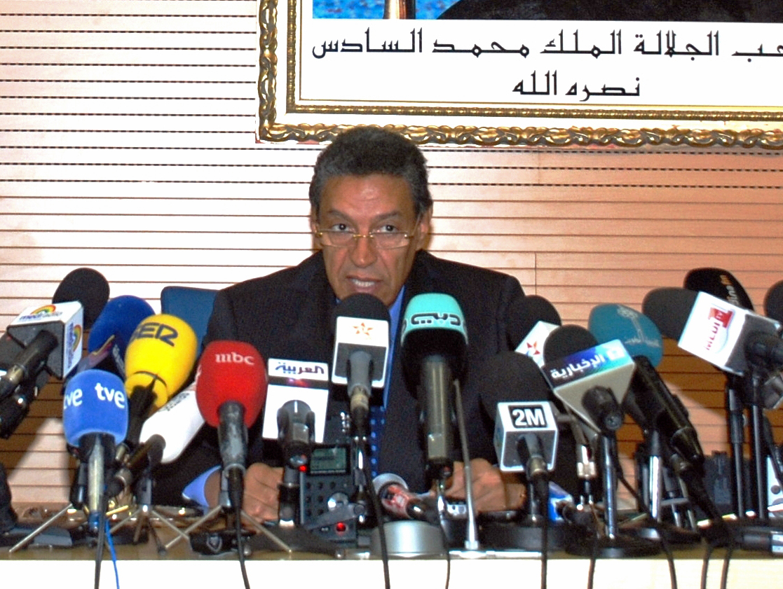 Former Interior minister of Morocco Taieb Cherkaoui